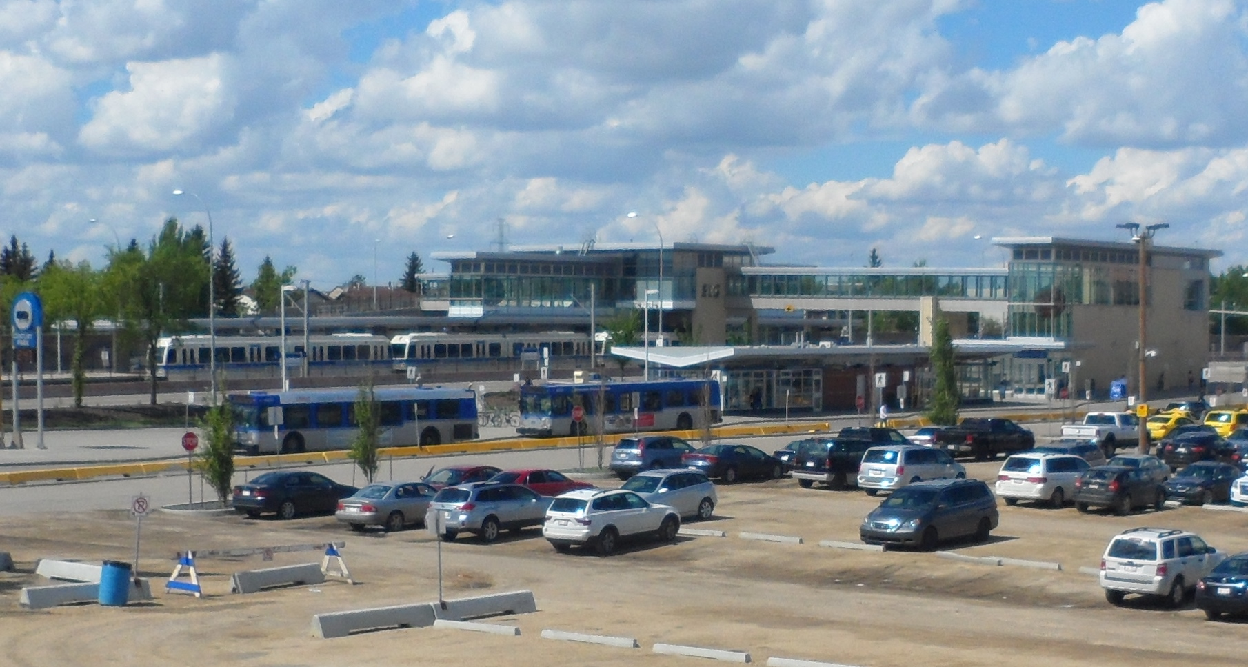 Century Park station (Edmonton)